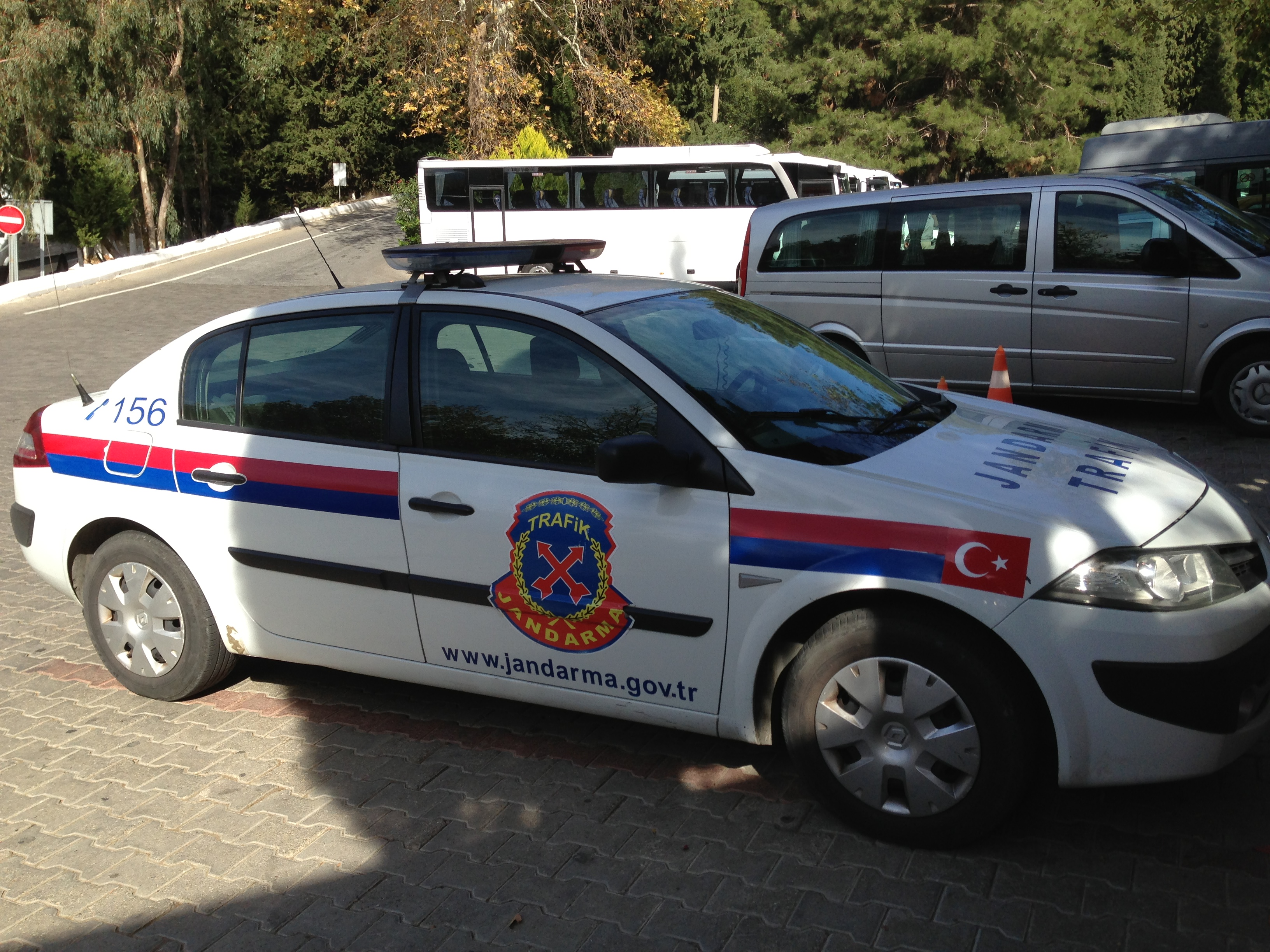 A Renault Megane as used by the Turkish Gendarmerie General Command parked at the House of the Virgin Mary site in Ephesus, Izmir Province, Turkey.